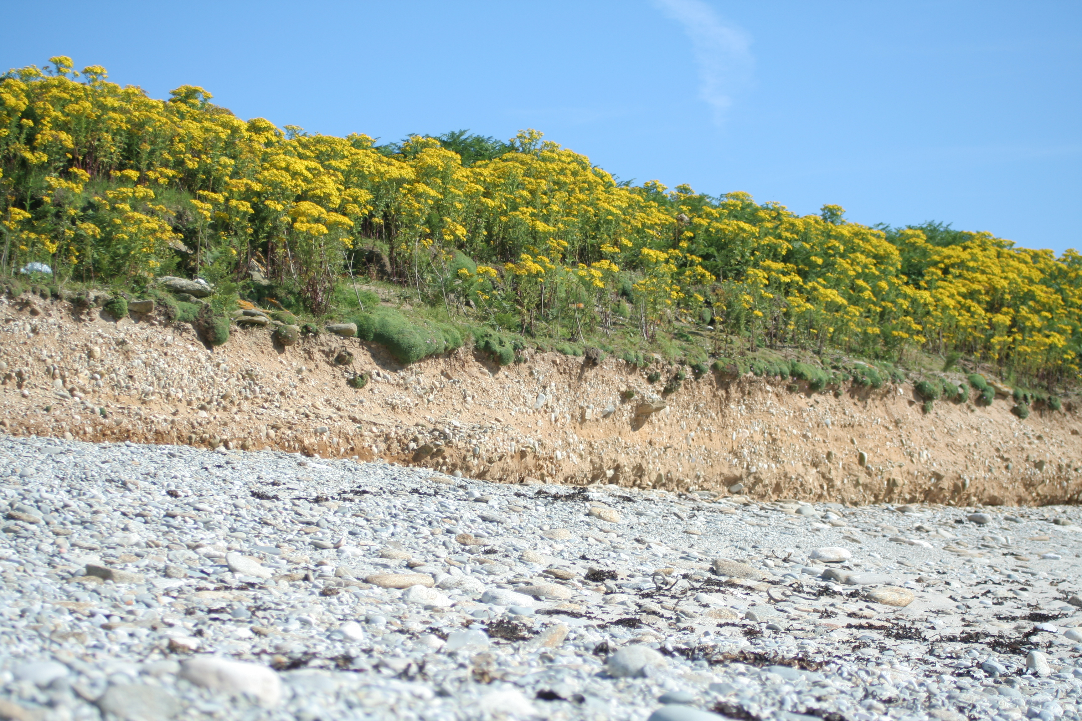 Erosion on the northern coast of Beniguet island.